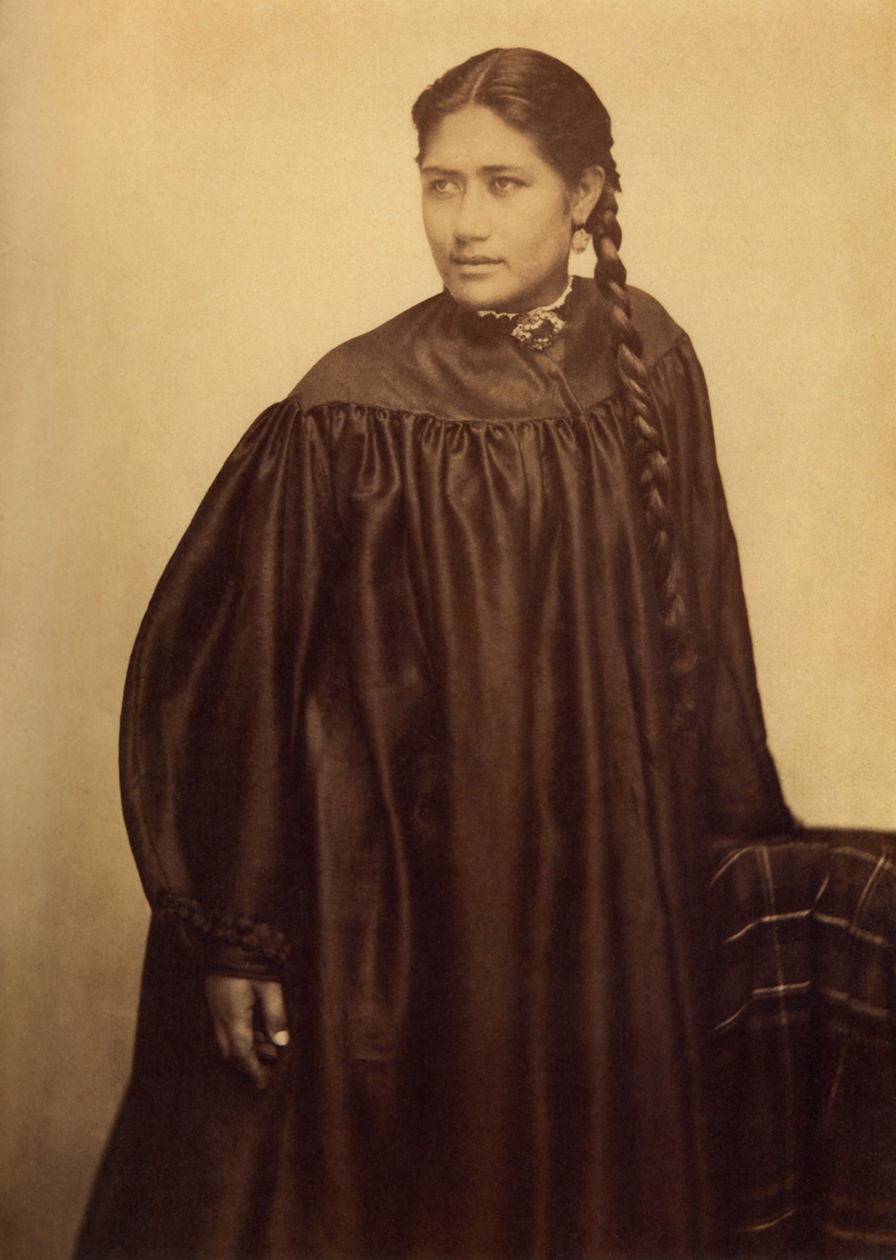 Princess Moetia Salmon, niece of Queen Pomare lV, and sister of Mrs. Titaua Brander. 1869/70. Paul-Émile Miot